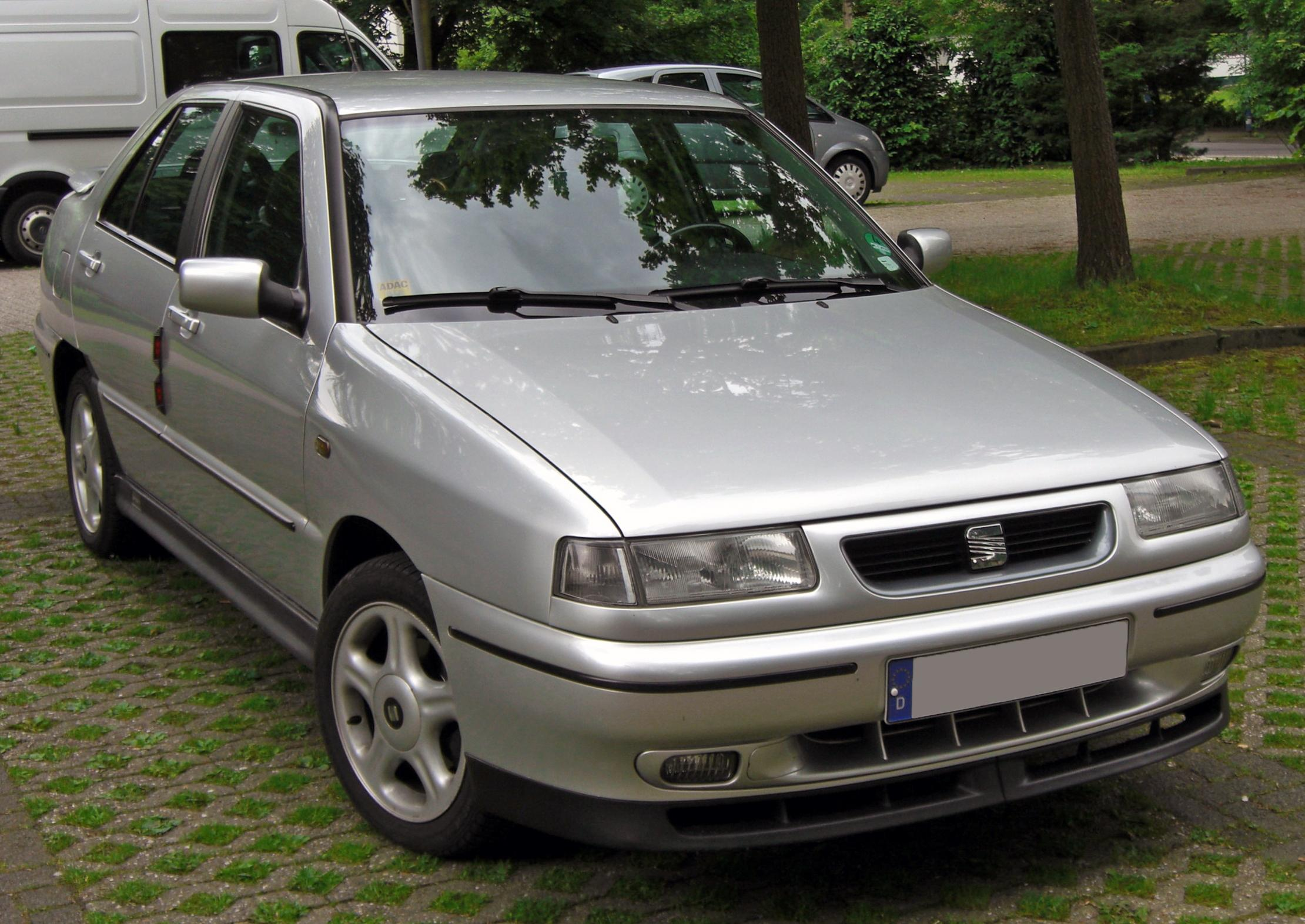 Seat Toledo I